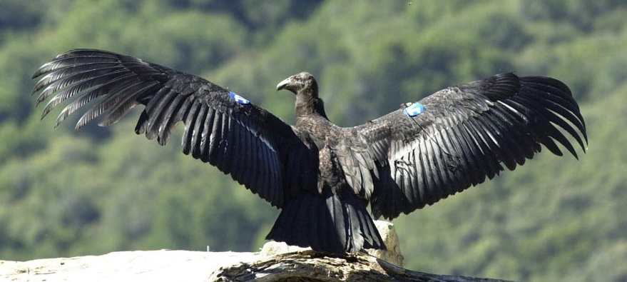 Young California condor (Gymnogyps californianus) ready for flight.